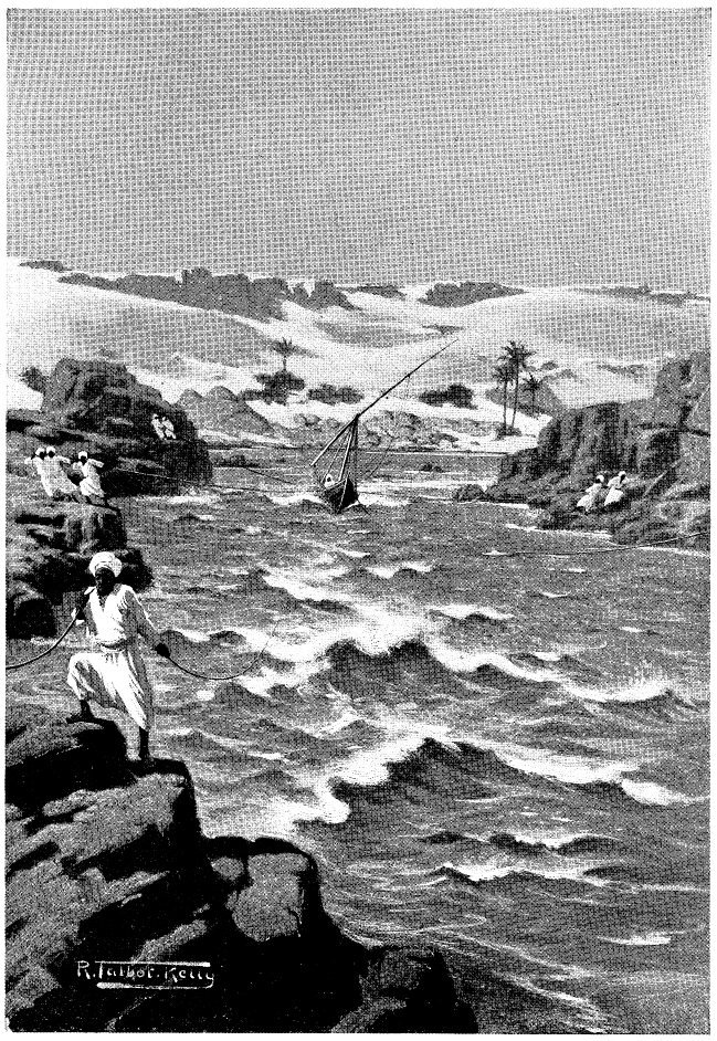 Natives hauling a boat up the "Great Gate," 1899